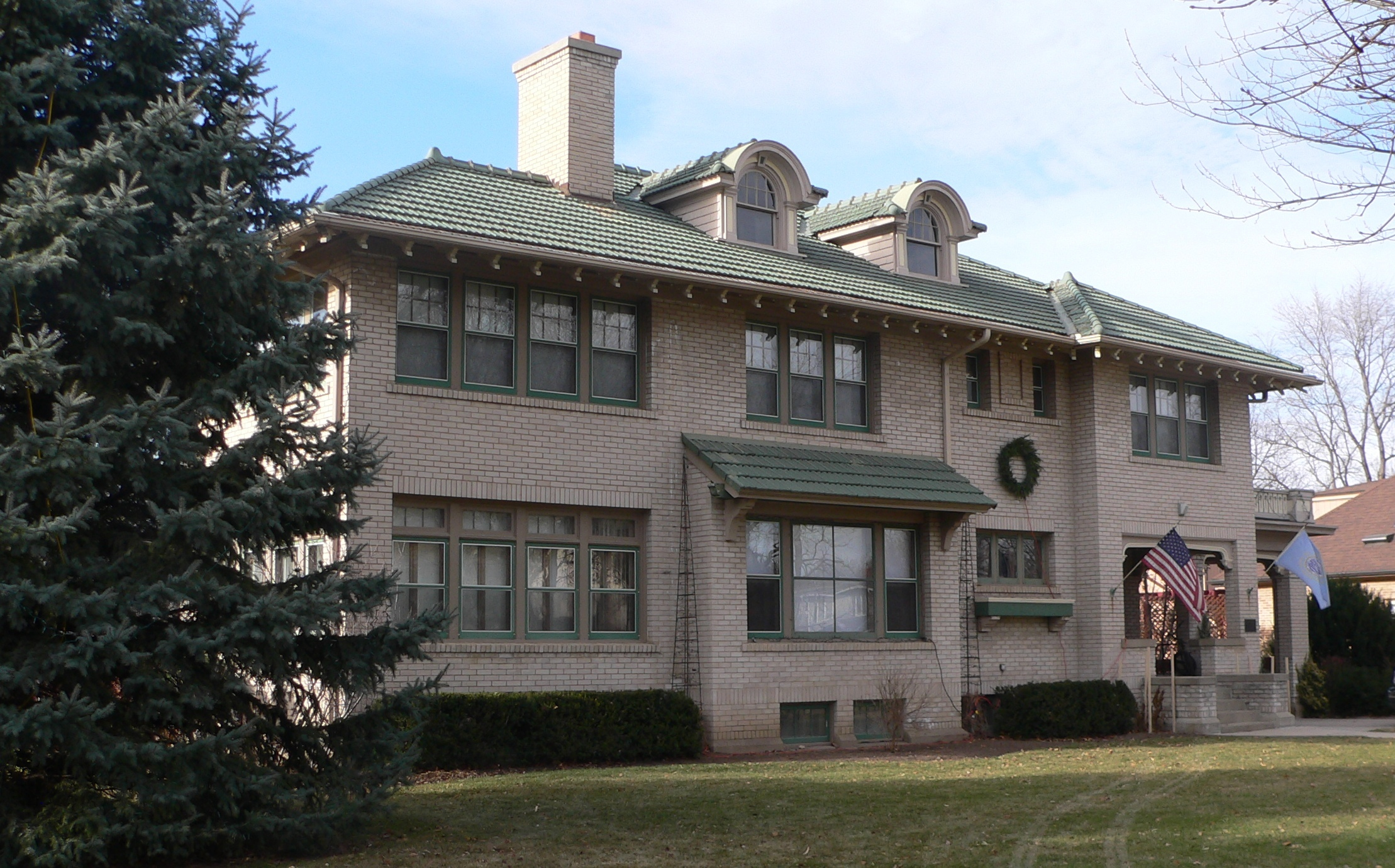 William J. Fantle House, located at 1201 Douglas Street in Yankton, South Dakota; seen from the southeast. The Prairie School house was built in 1917. It is listed in the National Register of Historic Places.